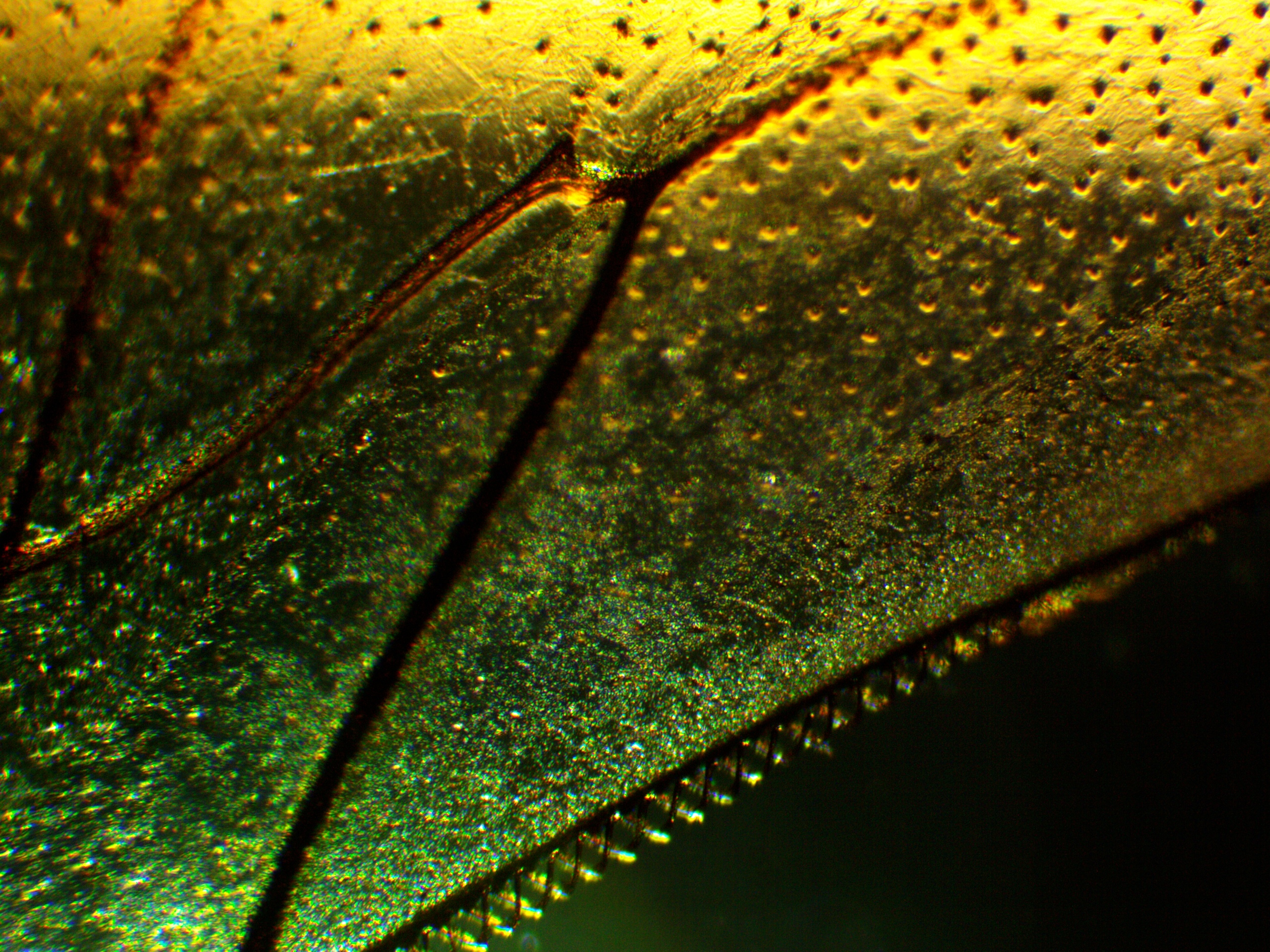 Bumblebee wings are webbed, transparent with a network of veins. The photograph shows small setae along the edge of the wing.